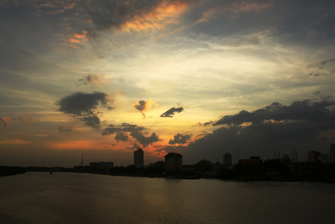 View of Kuantan River with the town on the right hand side.